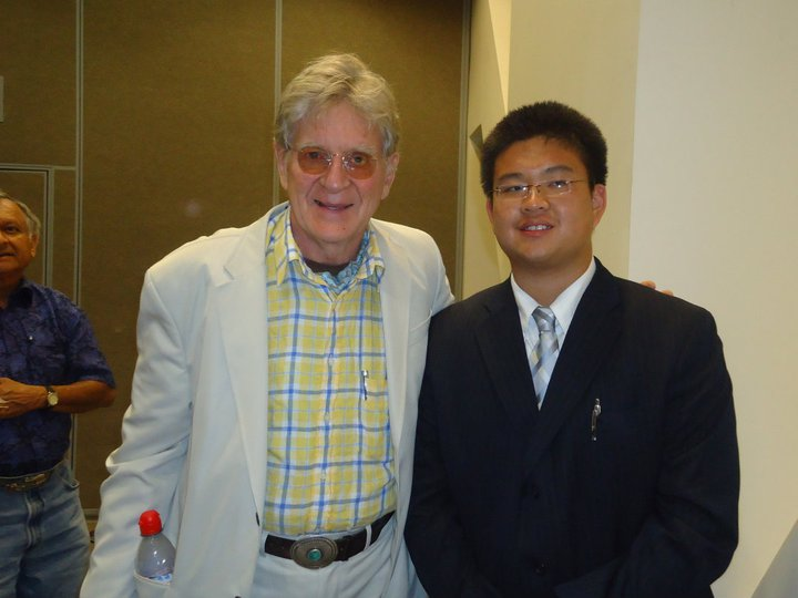 Robert Thurman (left) visiting the University of California, Irvine, in 2011. Pictured right: Alexis Wong, Internal Affairs President of the Buddhist Association at UC Irvine